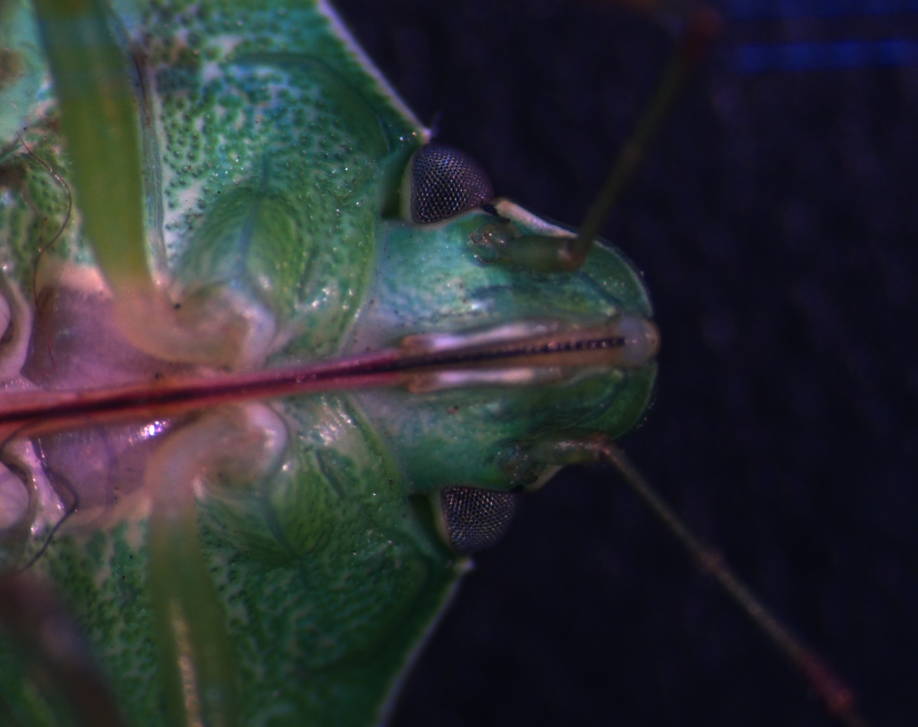 Head of the southern green stink bug (Nezara viridula) with the compound eyes in focus. Taken with a Zeiss AxioCam MRc mounted on Leica MZ9.5 stereomicroscope, magnification approx. 30x. The distance between the second pair of the legs (far left) and the tip of the head is around 6 mm.